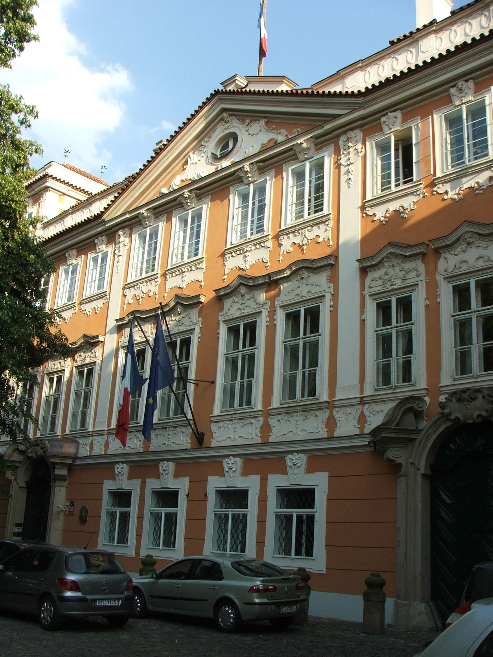 Buquoy Palace in Prague, Malá Strana, Embassy of France in Czechia.